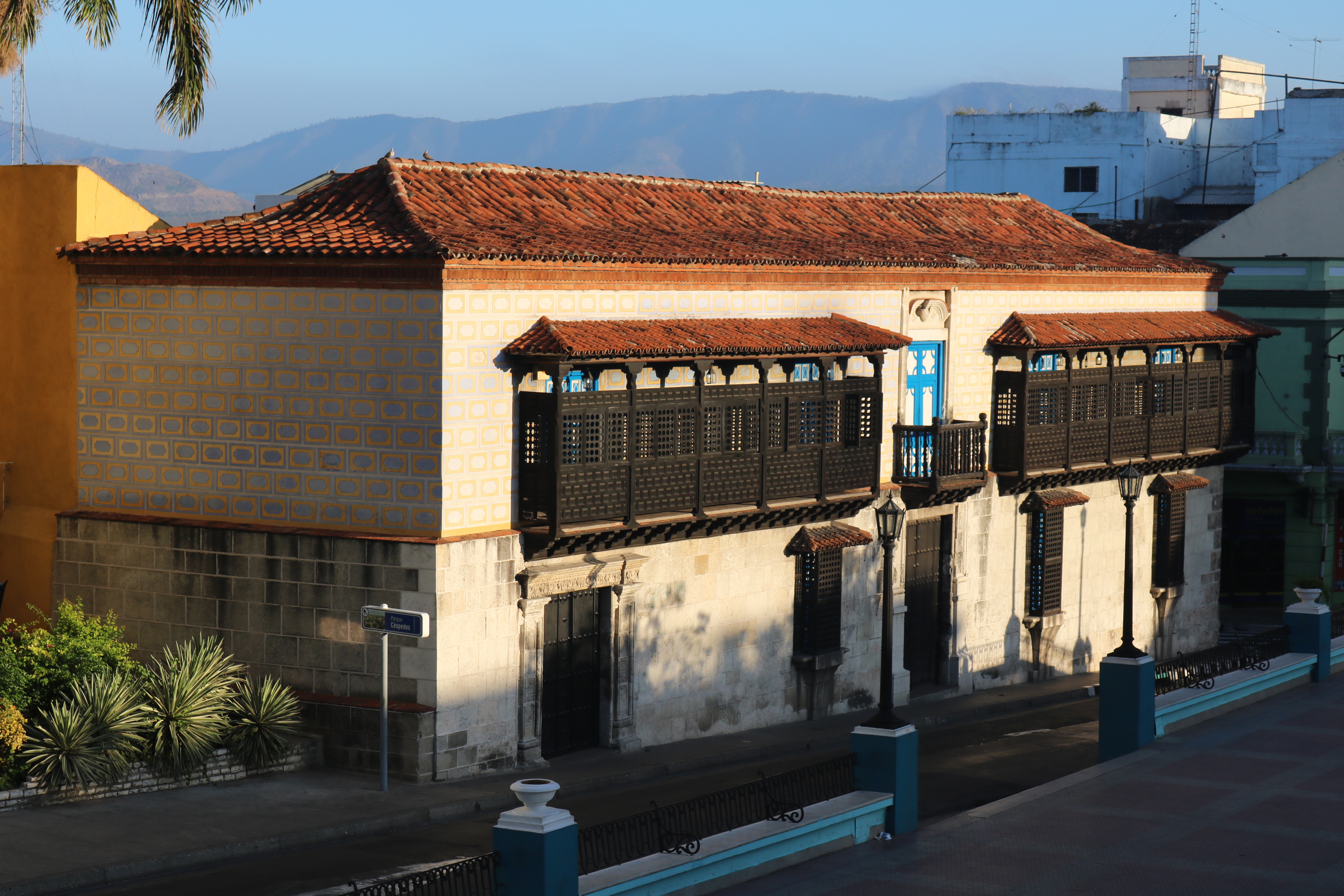 Casa de Diego Velázquez, at the Parque Céspedes, in Santiago de Cuba, Cuba